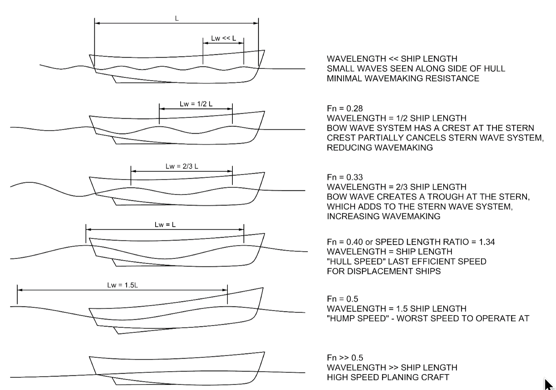 From the US Naval Academy Engineering 400 Class, Chapter 7. RESISTANCE AND POWERING OF SHIPS (P. 7-17): Figure 7.15 shows the appearance of the wave patterns along the side of the ship at various speeds. At low speeds, there are more wave crests on the side of the hull. At high speeds, the wavelength increases. The figure shows that at certain speeds, there is a crest at the stern, and at others, there is a trough. These crests and troughs can either partially cancel the stern wave system, or partially add to it, resulting in some speeds with higher resistance due to interference. This fact causes the plot of total resistance coefficient versus speed (Figure 7.16) to have “humps and hollows.” It is best to operate the ship in a hollow for fuel economy. The figure shows a large increase in resistance at a speed-to-length ratio of 1.34. This is the speed at which the wavelength is equal to the length of the ship. It is known as “hull speed,” which is the last efficient speed for a displacement ship. The speed where wavelength equals ship length can be solved for in the above equations and is: VS = 1.34 LS where: VS = ship speed (knots) LS = ship length (ft) Just above the “hull speed,” the stern of the ship drops into a large wave trough, and the ship runs at a high trim angle. Anyone who has been on a planing boat will have noticed a particular speed, where the bow comes up very high. This is the worst speed to operate at. As the boat goes faster, the wavelength increases still further, and the hull begins to plane, reducing wavemaking resistance. The plot in Figure 7.16 shows the great increase in resistance that occurs above hull speed, and also its drop at even higher speeds. Ships rarely have enough power to reach these speeds.